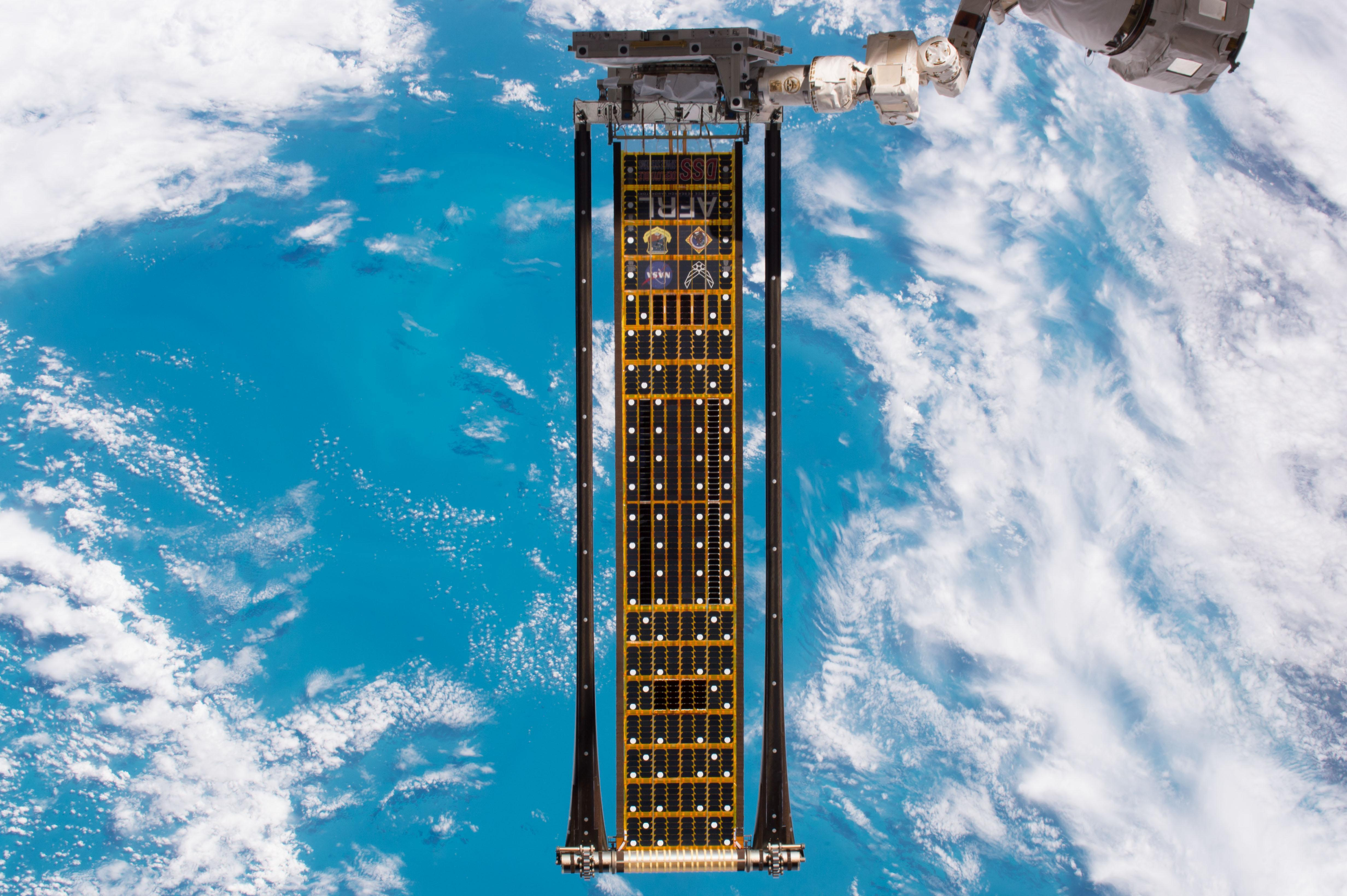 The Roll-Out Solar Array (ROSA) is an innovative prototype of a solar panel that rolls open in space like a tape measure and is more compact than current rigid panel designs.